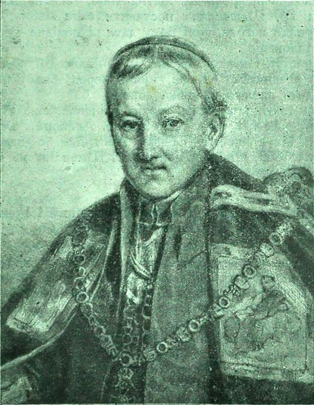 Mykhajlo Levitsky, Metropolitan of Lviv